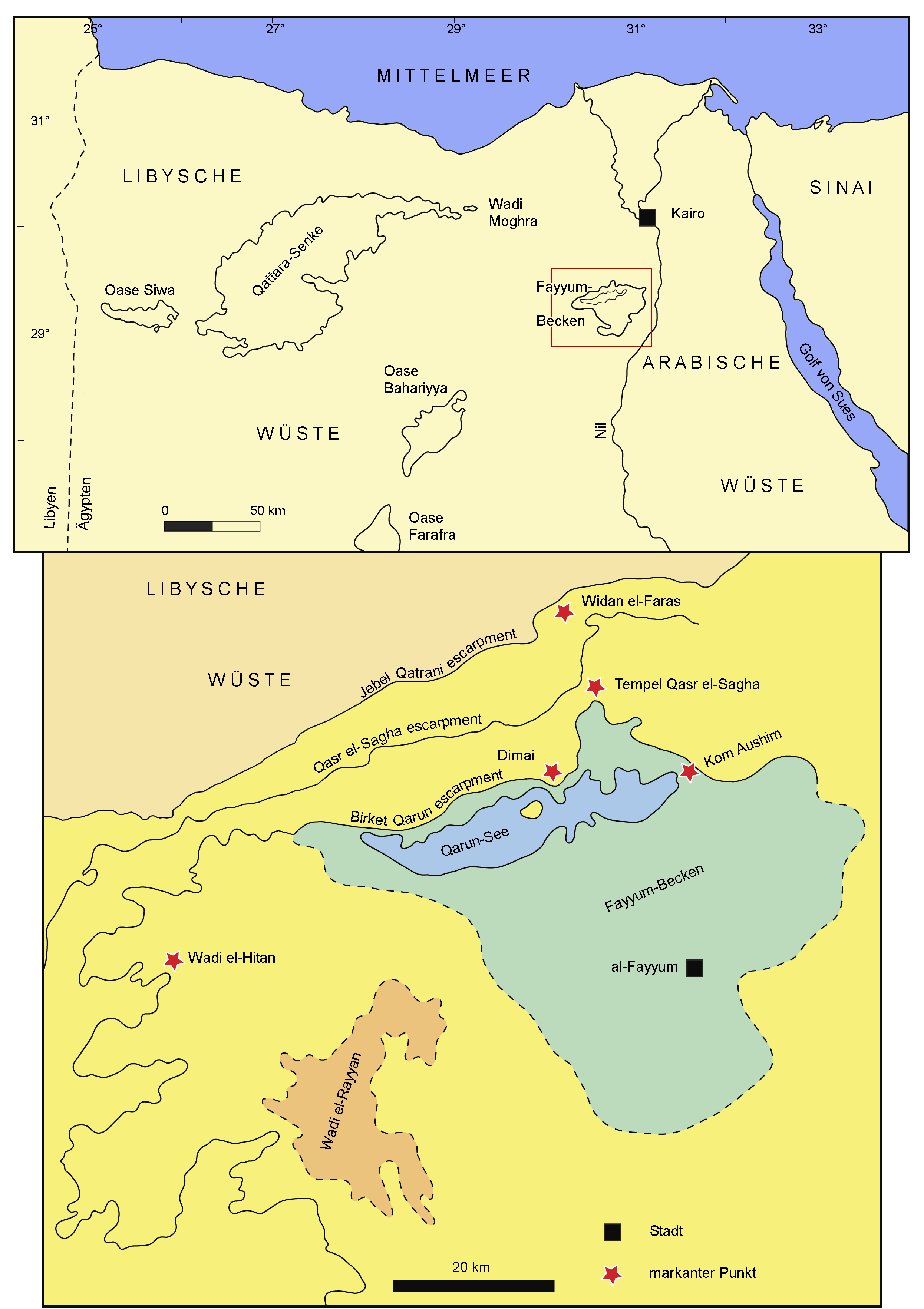 Map of the Fayum area, Egypt, based on Hesham M. Sallam und Erik R. Seiffert: New phiomorph rodents from the latest Eocene of Egypt, and the impact of Bayesian "clock"-based phylogenetic methods on estimates of basal hystricognath relationships and biochronology. PeerJ 4, 2016, pp. e1717 (fig. 1)